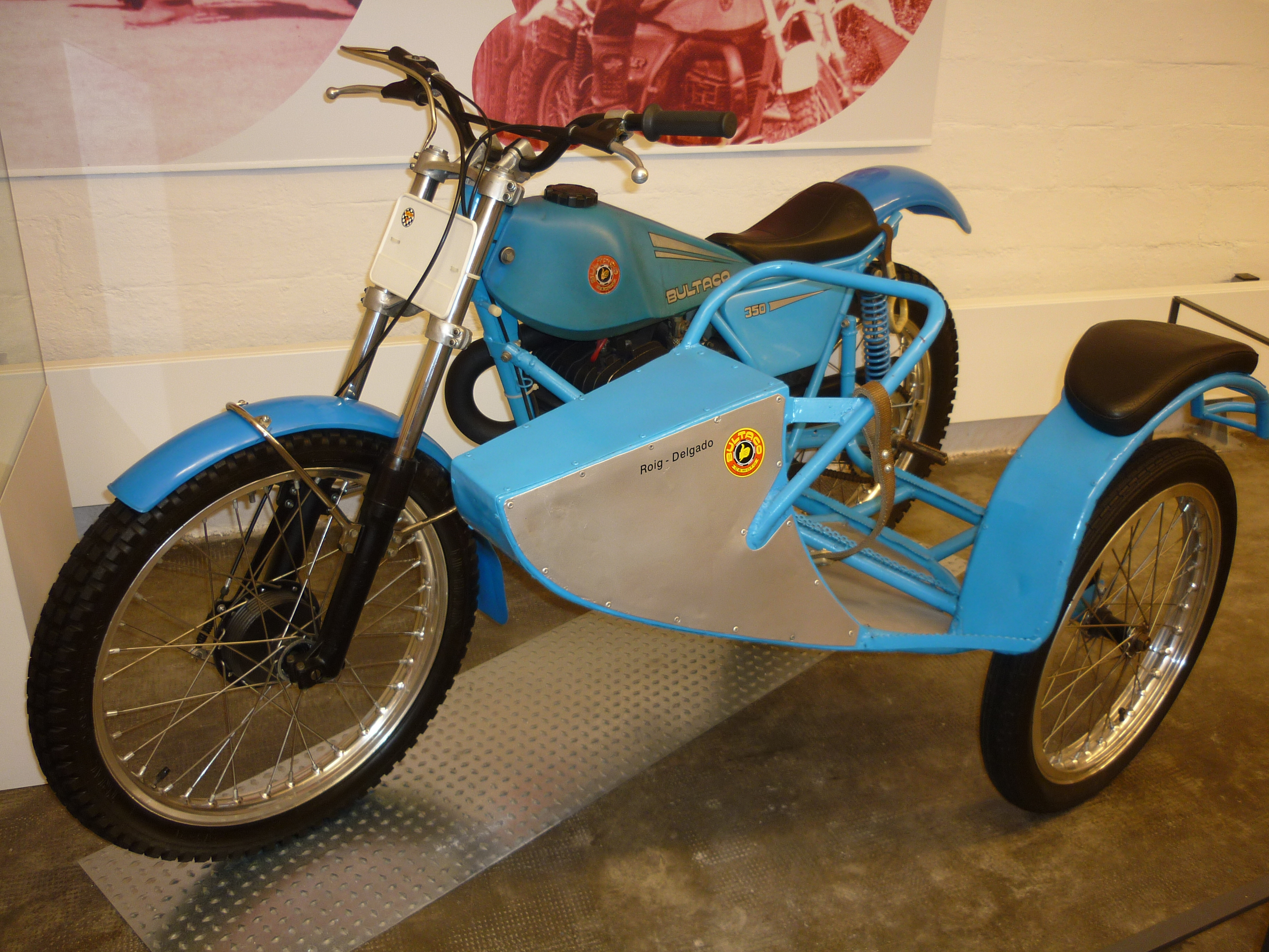 Bultaco Sherpa T 350 with a sidecar used by the couple Roig-Delgado in sidecartrial events held in Catalonia during 80's